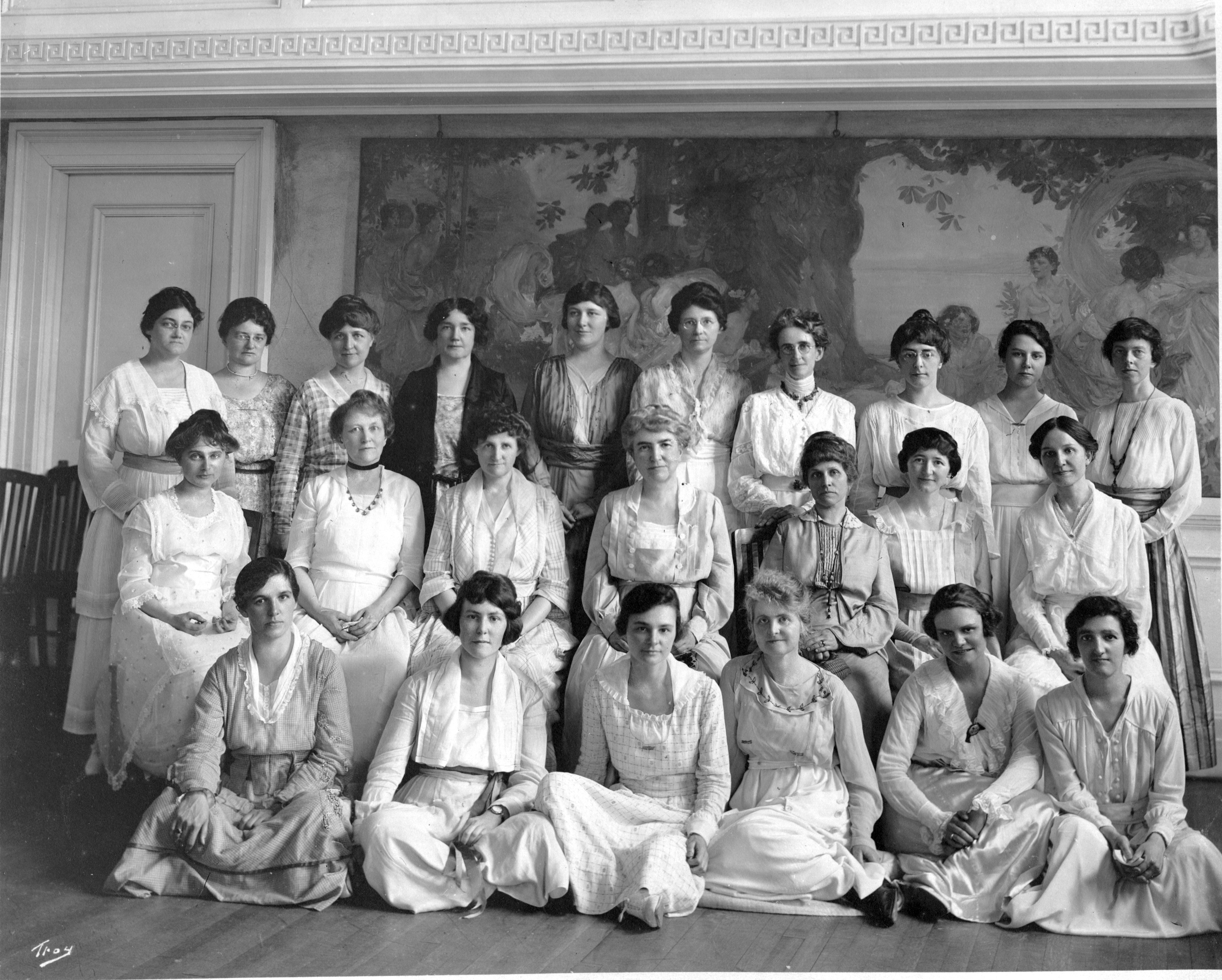 Collection: Human Ecology Historical Photographs Title: Faculty of the department of home economics about 1918-1919. In the first row, from left, are Anna Hunn, Eleanor Hillhouse, Julia Gleason, Winifred Moses, Beatrice Hunter and Claribel Nye. In the second row, from left, are Blanche Hazard, Annette Warner, Flora Rose, Martha Van Rensselaer, Helen Binkerd Young, Beulah Blackmore and Helen Monsch. In the third row, from left, are Jessie Boys, Frances Kelley, Clara Sykes, Ruby Green Smith, Florence Freer, Nancy Roman, Mrs. Whittemore, Alice Blinn, Gladys Smith and Helen Canon. Collection #23-2-749, item AP-P-05 Div. Rare & Manuscript Collections, Cornell University Library Persistent URI: There are no known U.S. copyright restrictions on this image. The digital file is owned by the Cornell University Library which is making it freely available with the request that, when possible, the Library be credited as its source.